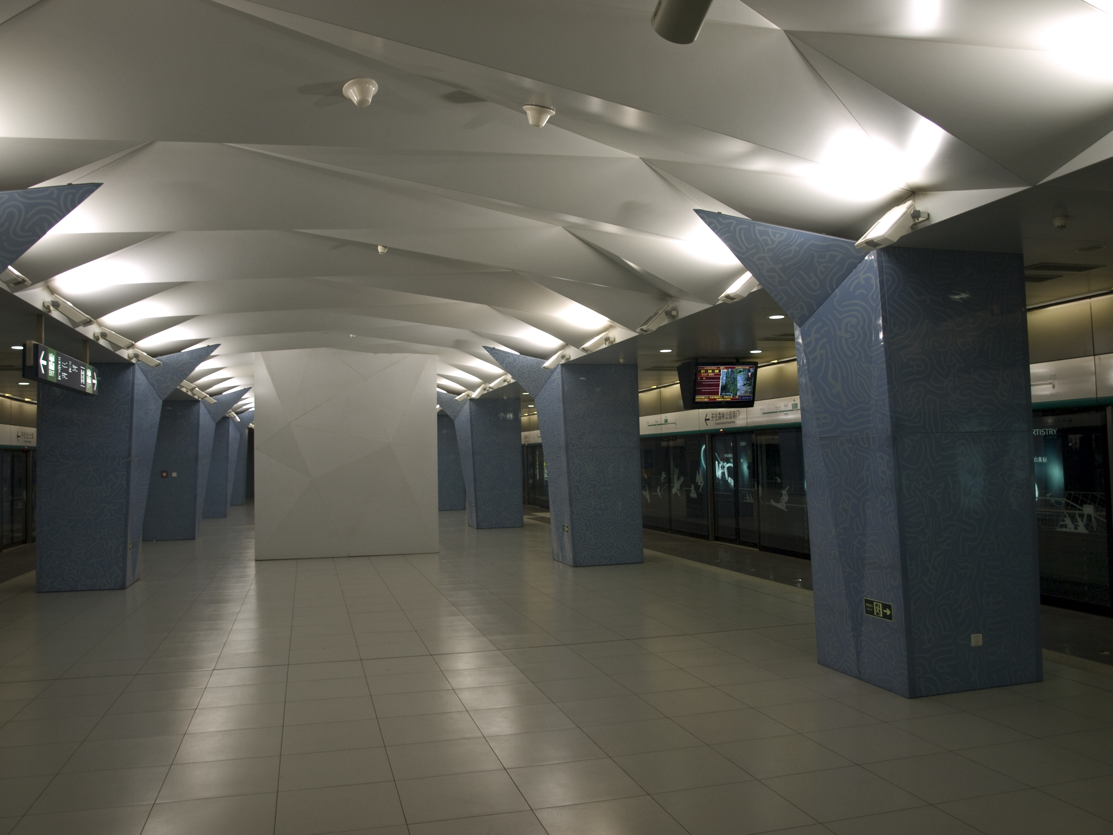 Olympic Sports Center station, Beijing Subway